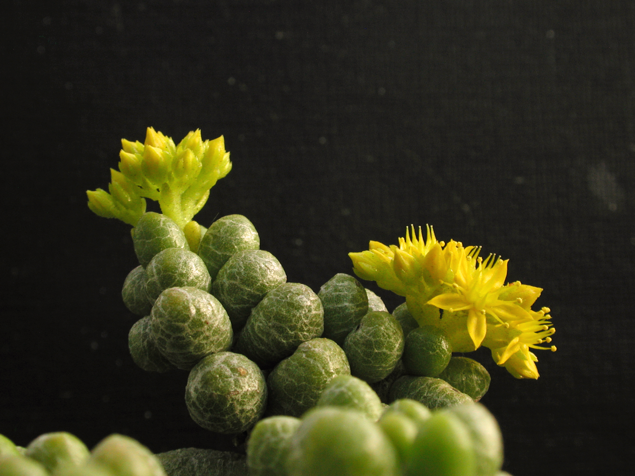 Sedum hernandezii